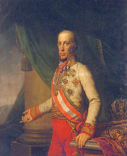 Emperor Franz I of Austria (Franz II of the Holy Roman Empire), wearing the uniform of a Field Marshal in the Austrian Army